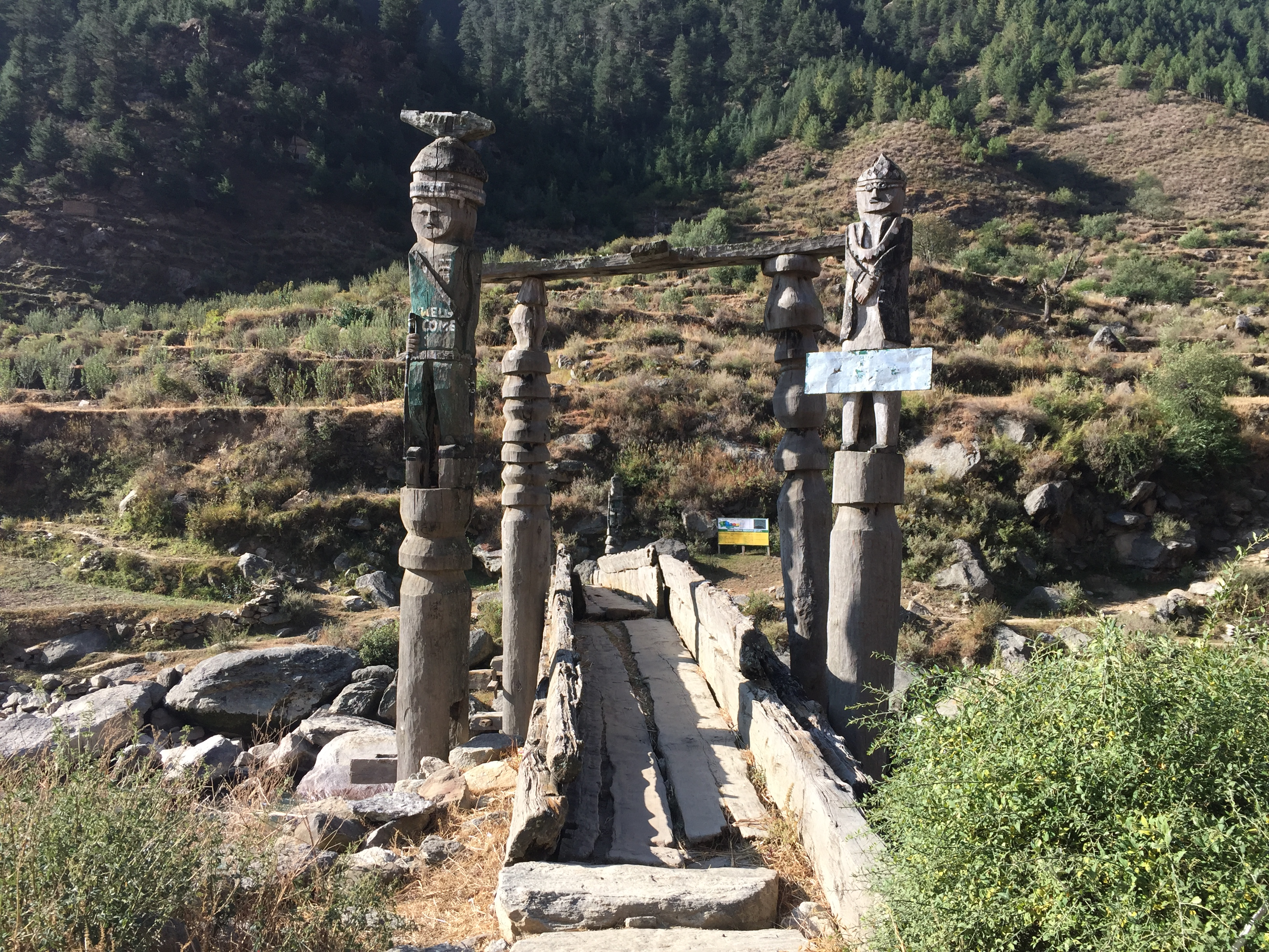 The Sinja Valley is located in the Jumla District in Karnali Province, of Nepal. The valley houses the ancient capital city of the Khasas that ruled this area from the 12th to the 14th Century. Palaces, temples, and the ancient remains of a settlement were uncovered during excavations spearheaded by the Department of Archaeology at Cambridge University. Major finds from the site include a large network of underground pipes that formed a complex water delivery system as well as a ring of massive monolithic stone columns circumscribing the settlement. On the cliffs at the valley edge were found some of the earliest written examples of Nepali language.